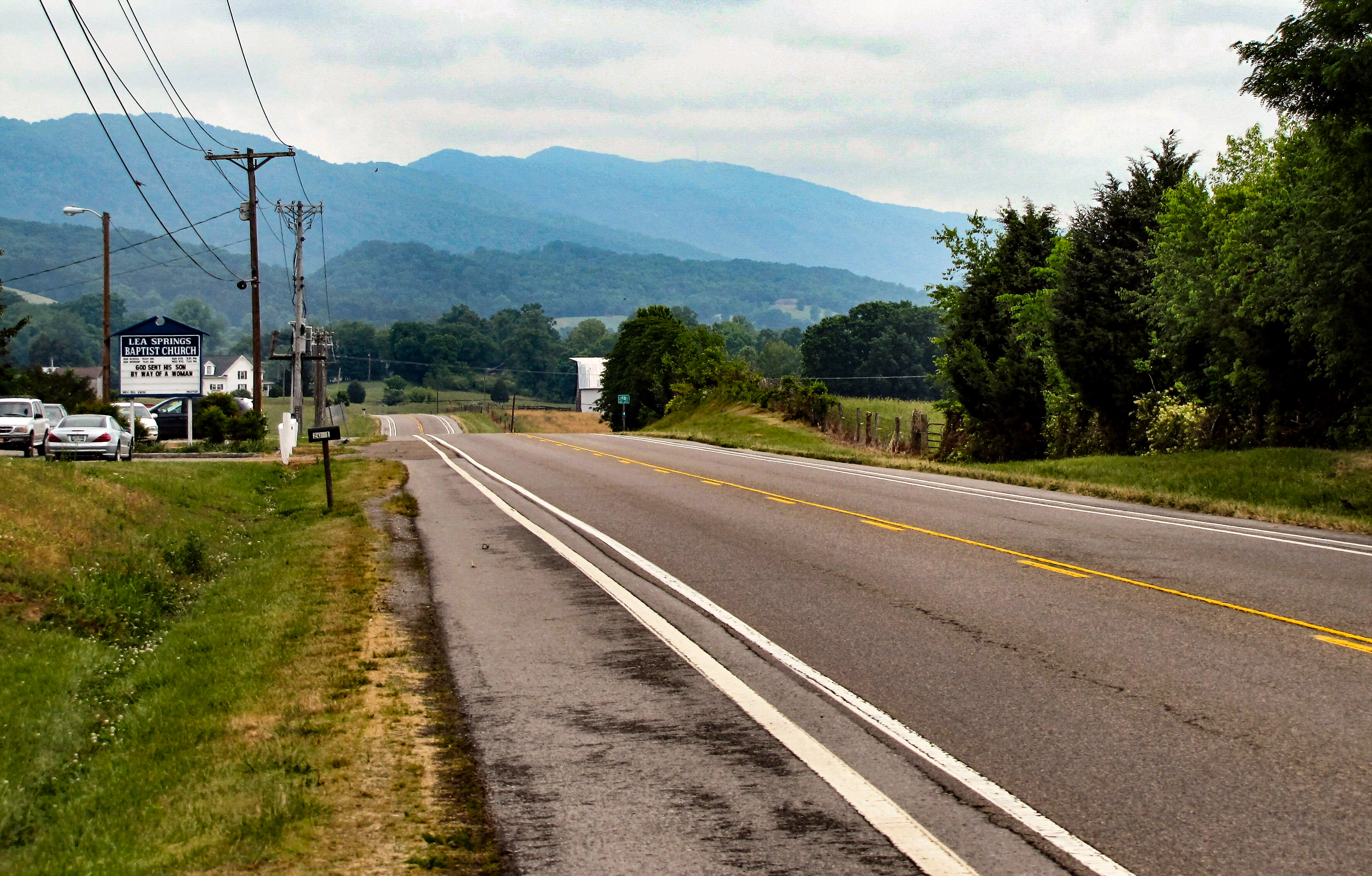 U.S. Highway 11W near Blaine in Grainger County, Tennessee, United States. Clinch Mountain rises in the distance.